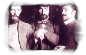 Seddeler kardovsky kandinsky in the School of Azbe, München, 1896